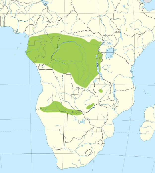 Twa populations scattered through shaded area per Blench (1999)